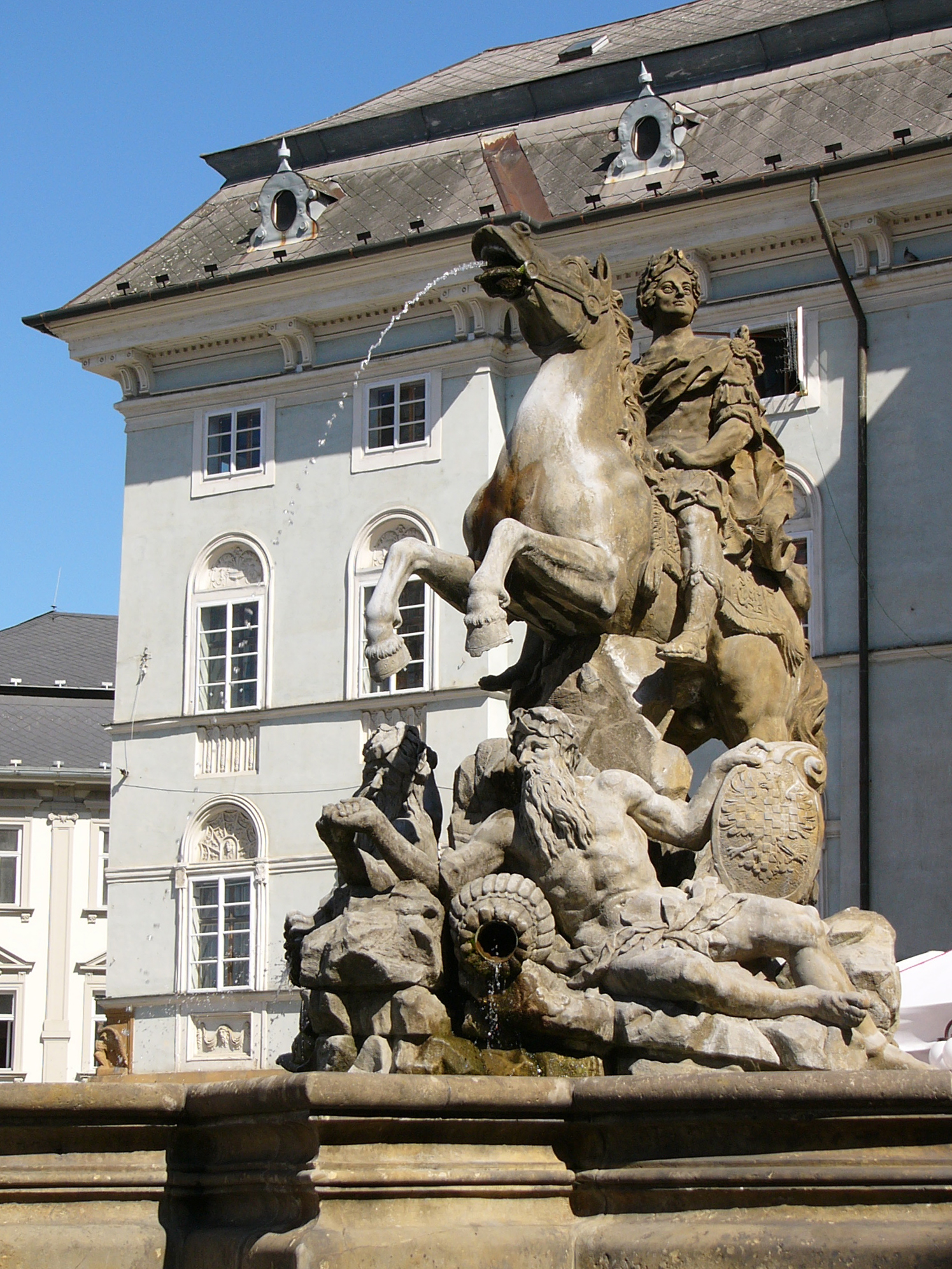 Fountain of Caesar in Olomouc (Czech Republic).